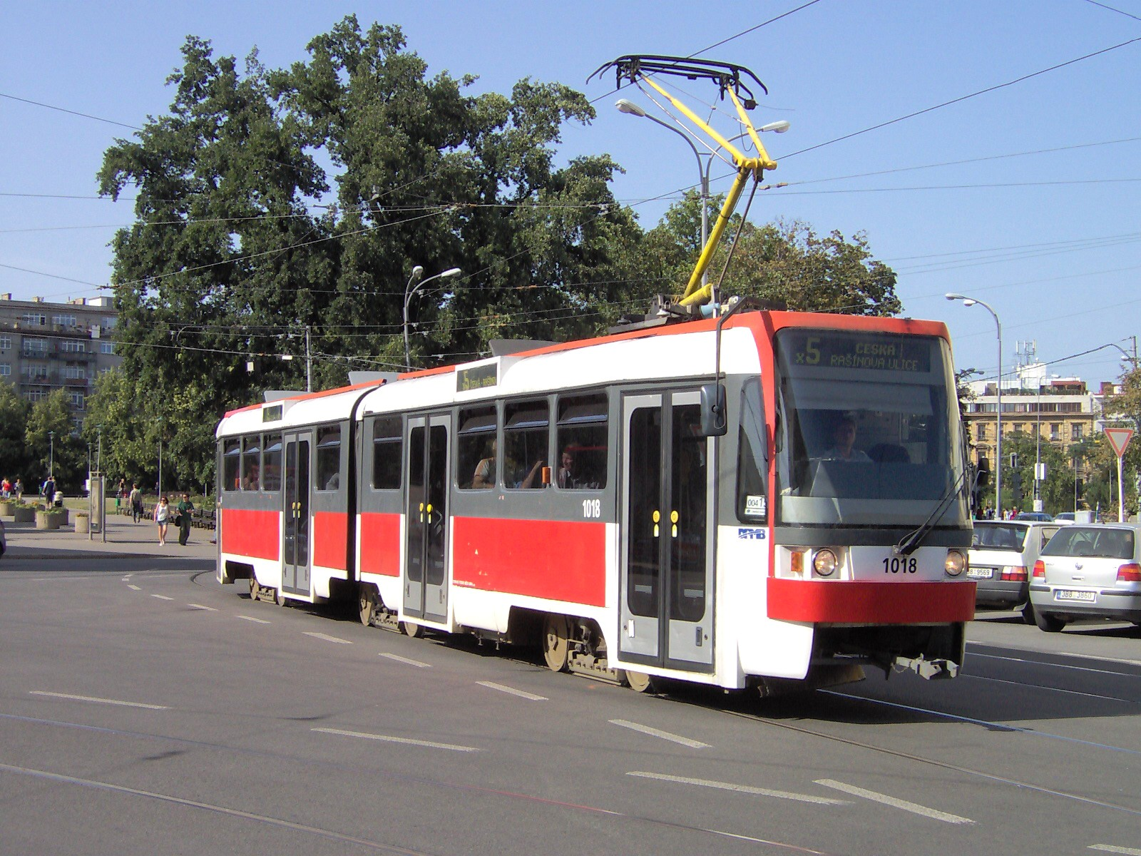 Tramway Tatra K2R, Brno, Czech Republic